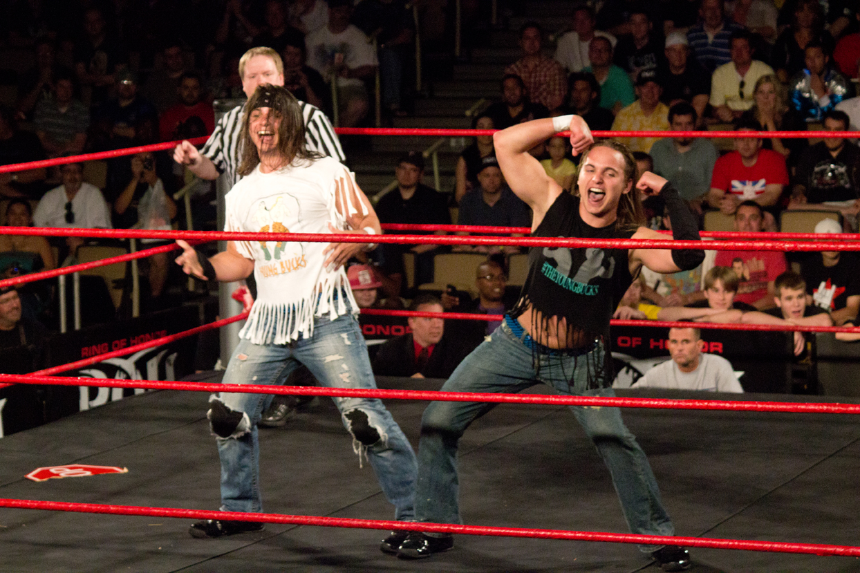 The Young Bucks Taunt prior to a tag team Street Fight at Showdown in the Sun Night 2 on March 31, 2012.